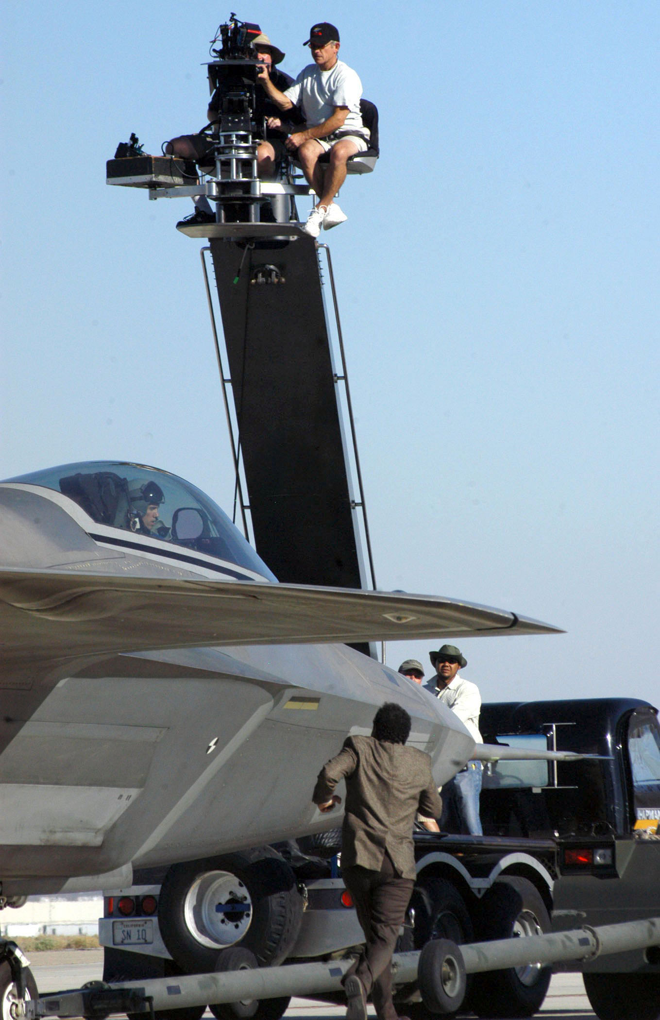 EDWARDS AIR FORCE BASE, Calif. -- NBC Universal cameramen capture the action as actor Tony Shalhoub, who plays detective Adrian Monk, runs to capture the "bad guy" who attempts to escape in an F/A- 22 Raptor during the filming of an upcoming episode of "Monk." The episode is scheduled to air on USA Network in January 2006.